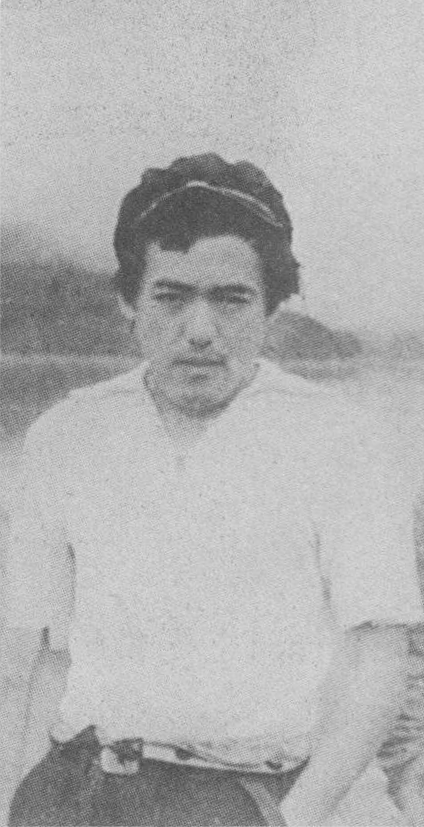 Haraguchi, Tôzo (1946 Jul.)